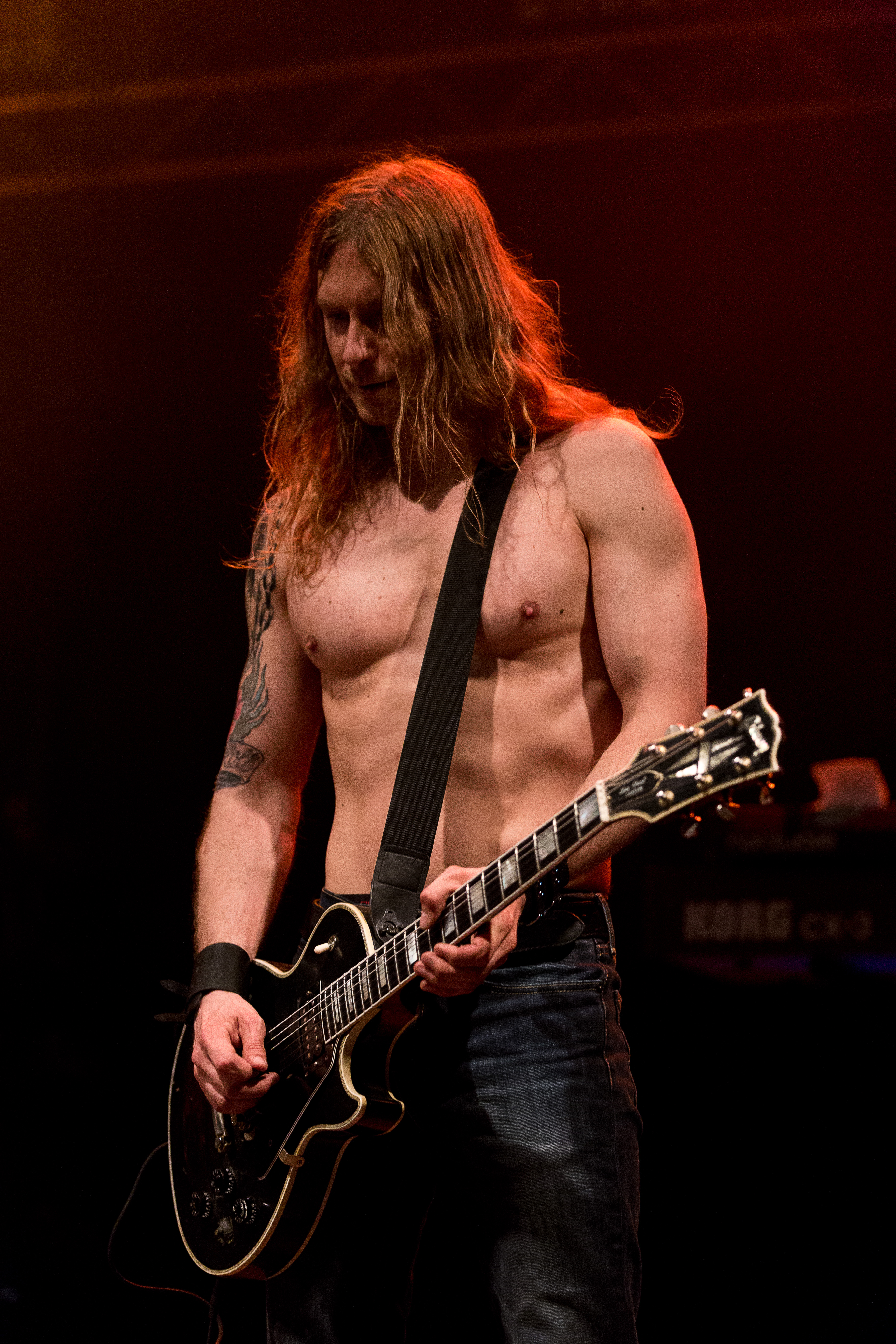 The Norwegian viking/progressive metal band Enslaved at the 25. Wave-Gotik-Treffen 2016 in Leipzig/Germany.